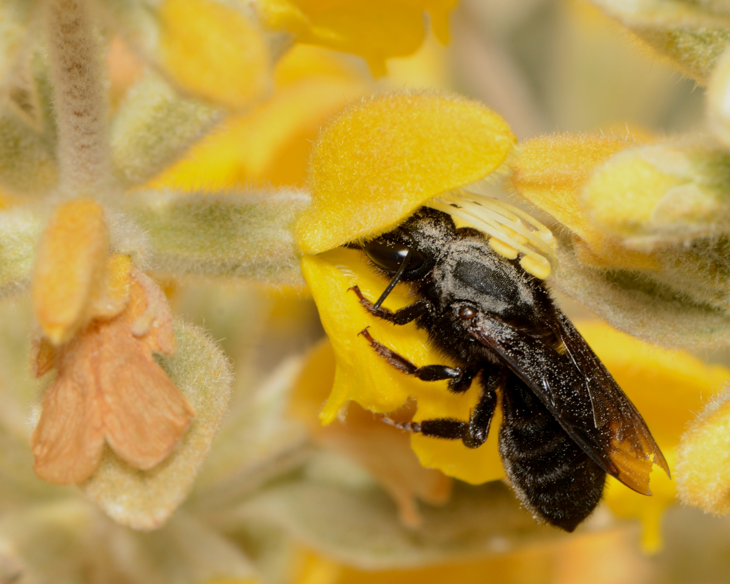 Megachile (Chalicodoma) parietina, female collecting nectar from Phlomis Brachyodon, Lahav Hills, Northern Negev, Israel, April 16 2012.